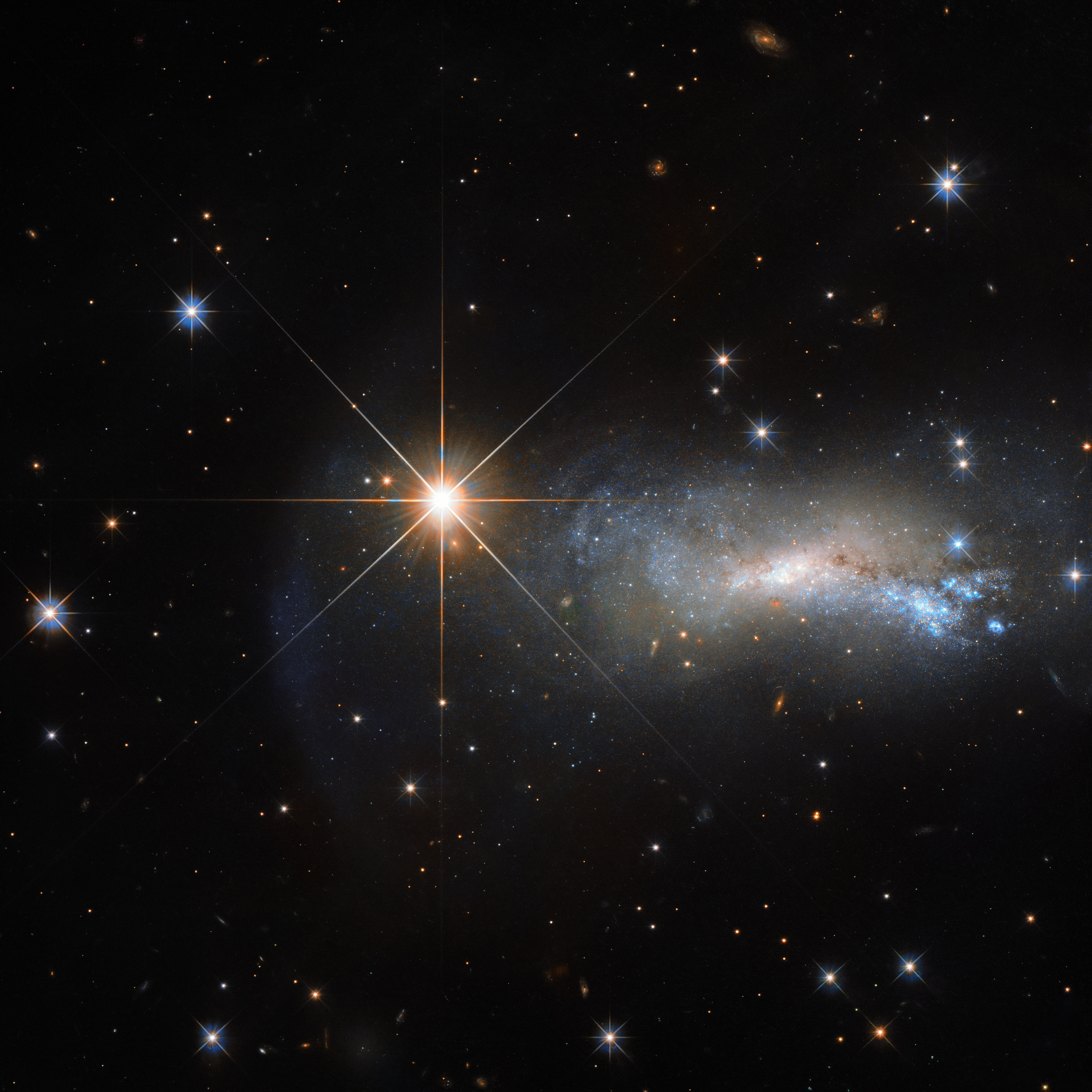 In space, being outshone is an occupational hazard. This NASA/ESA Hubble Space Telescope image captures a galaxy named NGC 7250. Despite being remarkable in its own right — it has bright bursts of star formation and recorded supernova explosions— it blends into the background somewhat thanks to the gloriously bright star hogging the limelight next to it. This bright object is a single and little-studied star named TYC 3203-450-1, located in the constellation of Lacerta (The Lizard), much closer than the much more distant galaxy. Only this way a normal star can outshine an entire galaxy, consisting of billions of stars. Astronomers studying distant objects call these stars “foreground stars” and they are often not very happy about them, as their bright light is contaminating the faint light from the more distant and interesting objects they actually want to study. In this case TYC 3203-450-1 million times closer than NGC 7250 which lies over 45 million light-years away from us. Would the star be the same distance as NGC 7250, it would hardly be visible in this image.